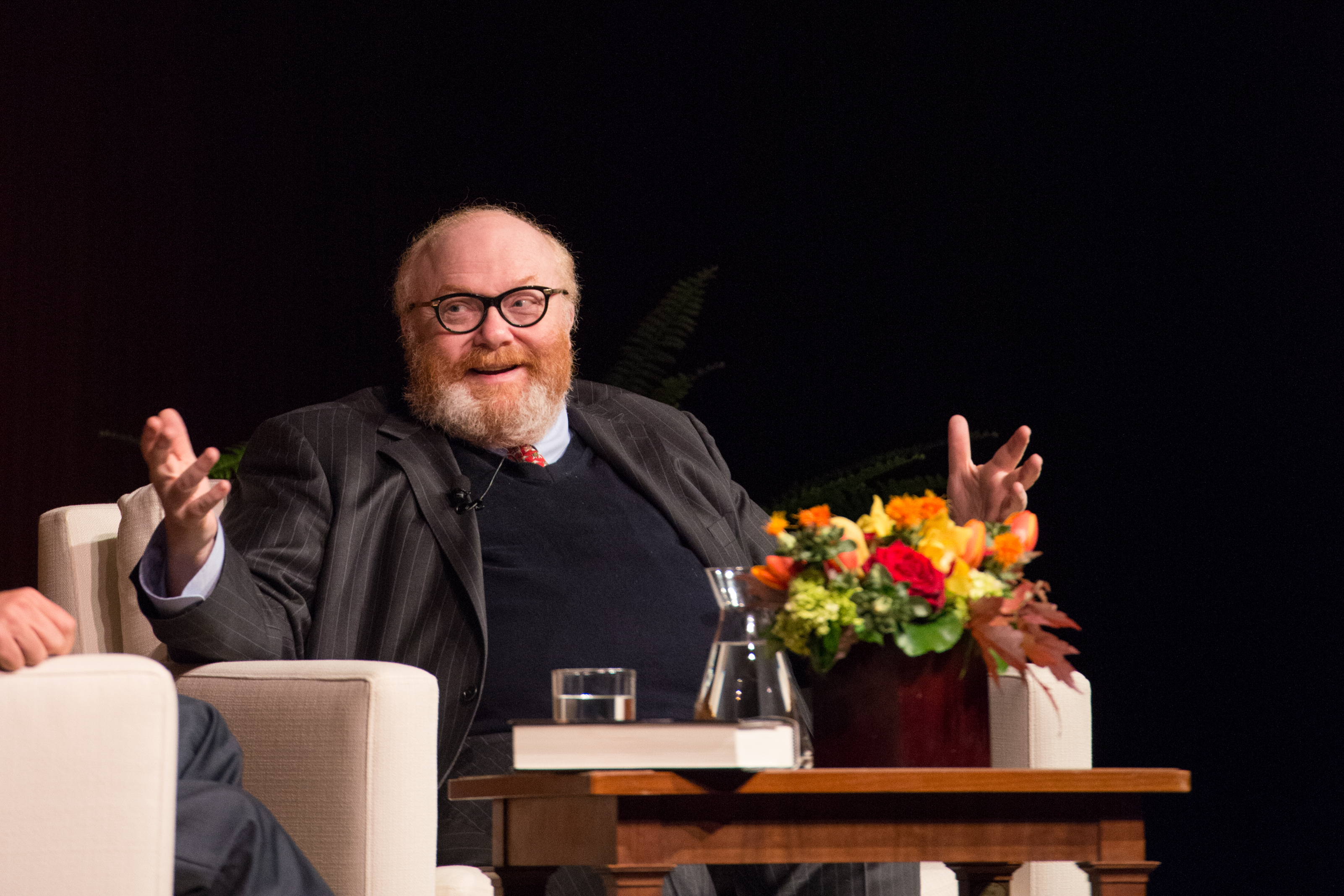 Presidetnial historian and author Richard Norton Smith discusses his new biography, "On His Own Terms: A Life of Nelson Rockefeller," with director Mark Updegrove at the LBJ Presidential Library on October 28, 2014. LBJ Foundation president Elizabeth Christian introduced the Friends program, "An Evening with Richard Norton Smith." Photo by Lauren Gerson.